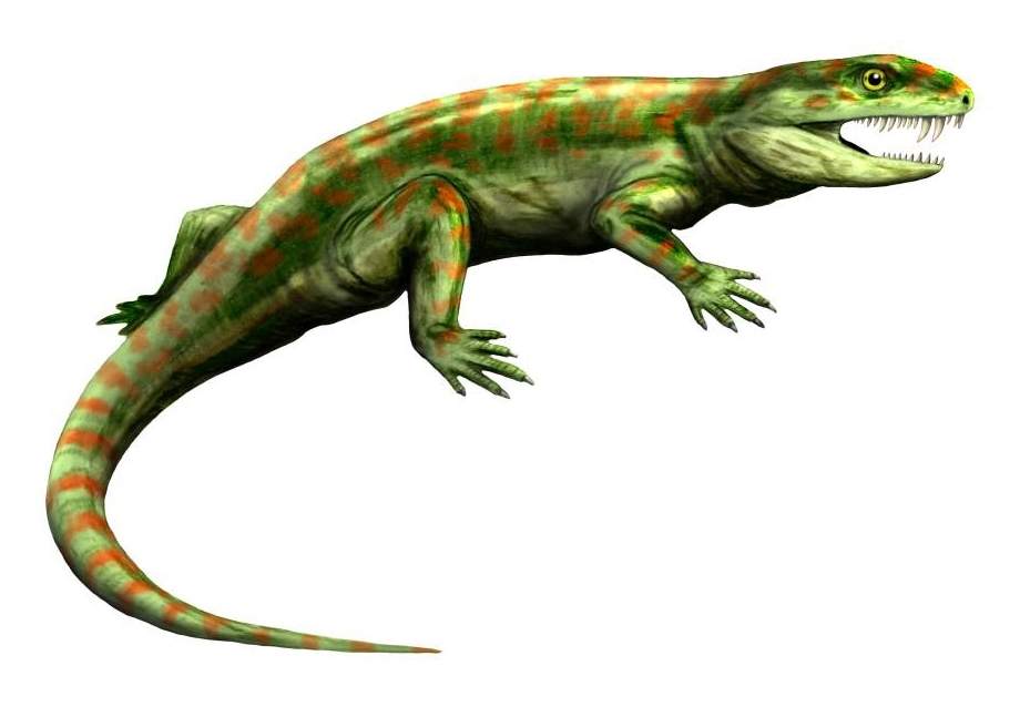 Eothyris parkeyi, pencil drawing, digital coloring